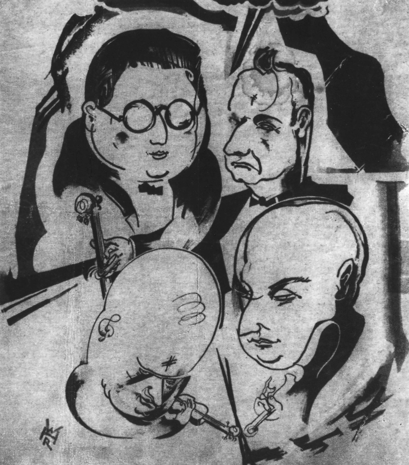 Rudolf Wilhelm Heinisch, drawing of the Amar-Quartett with Licco Amar (1st violin), Walter Caspar (2nd violin), Paul Hindemith (viola) and Maurits Frank (violoncello) published in "Das Illustrierte Blatt" on 31 July 1923.